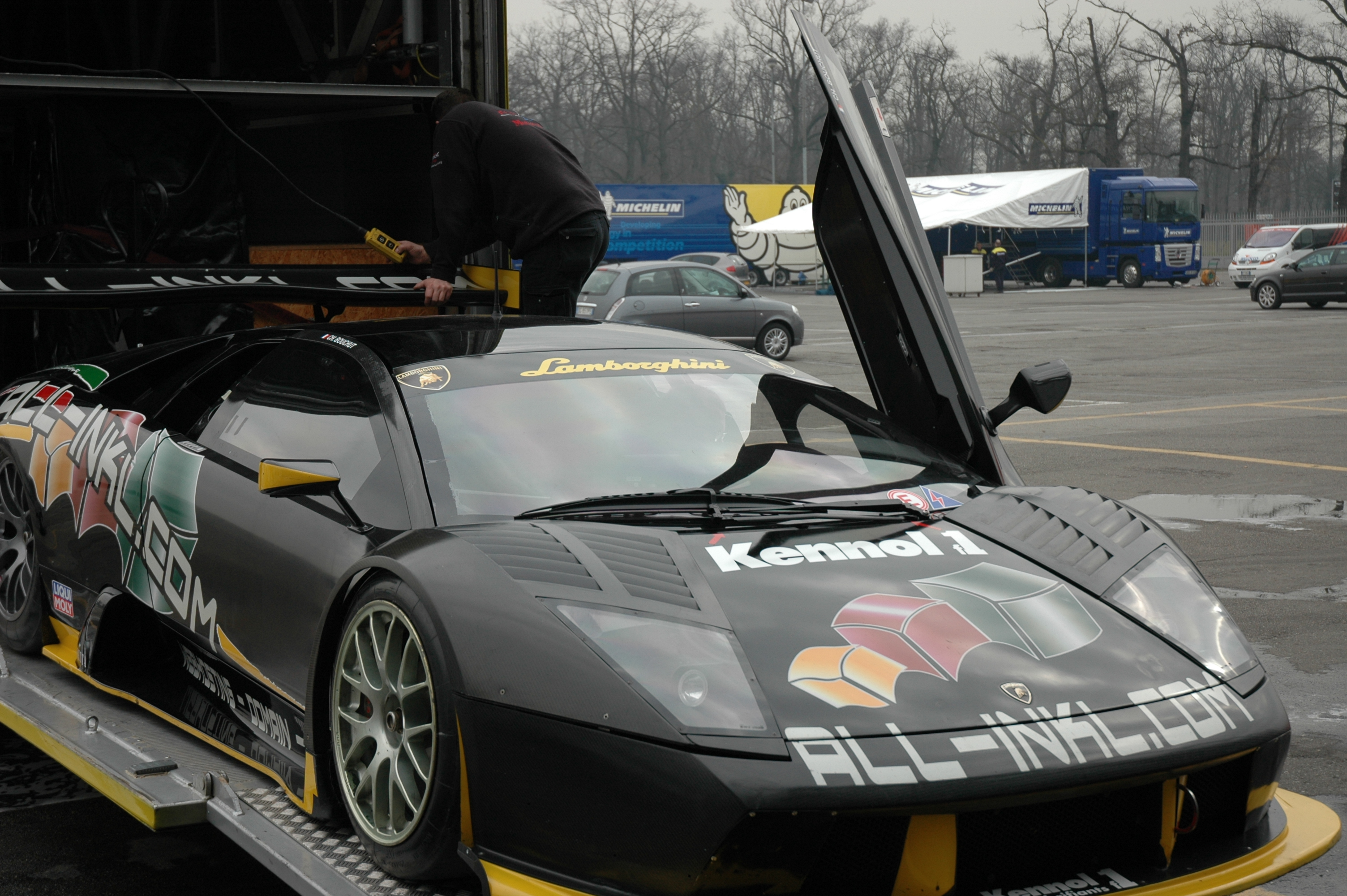 Reiter Engineering ( Racing) Lamborghini Murcielago R-GT at Monza.